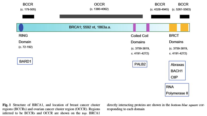 estrutura do BRCA1 e seu respectivo domínio protéico